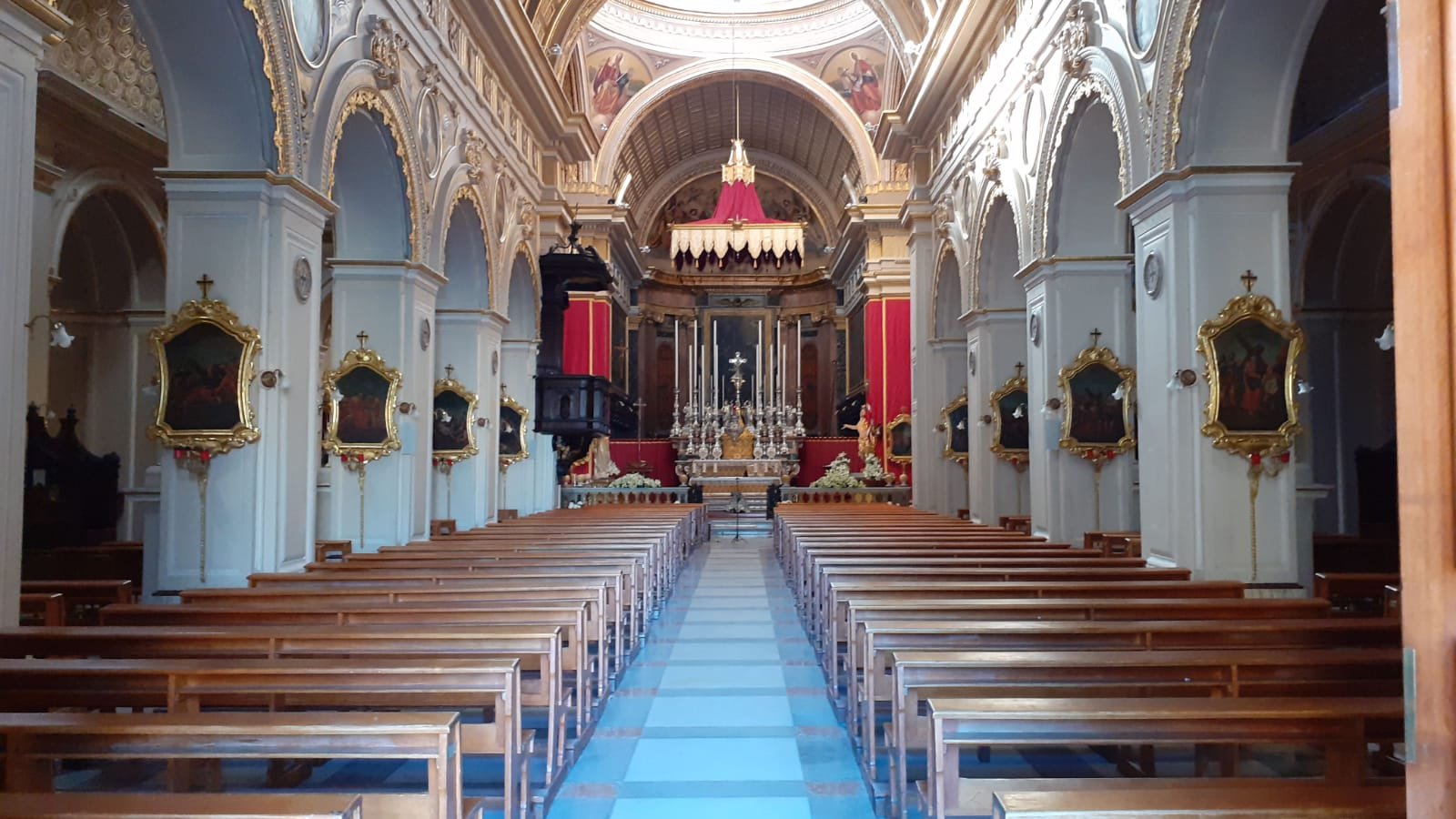 COVID-19 pandemic in Qormi